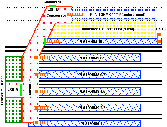 Diagram of Redfern railway station, Sydney concourse and platforms.